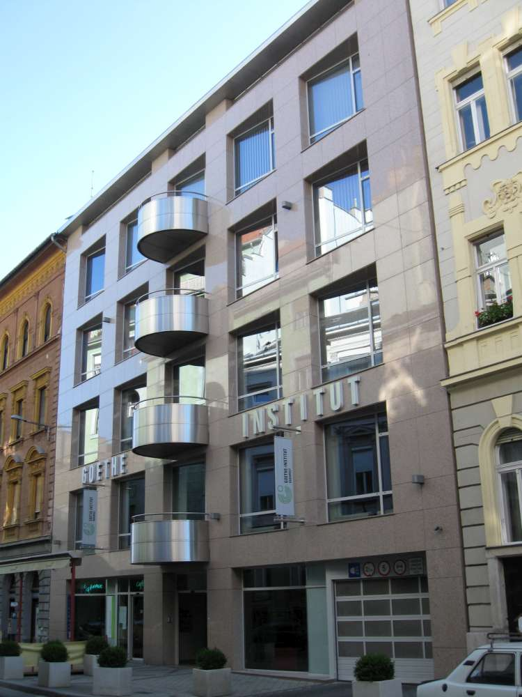 Goethe-Institut Hungary